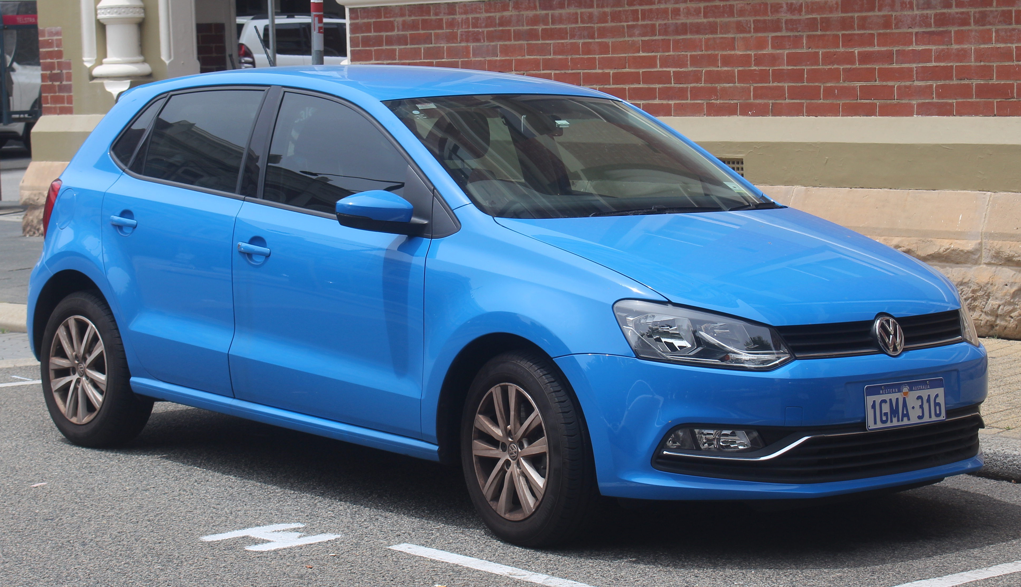 2014-2017 Volkswagen Polo (6R) 81TSI Comfortline hatchback. Photographed in Fremantle, Western Australia, Australia.